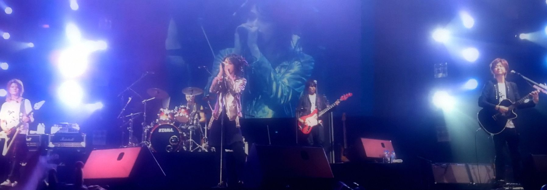 Λucifer at Indoor Stadium Huamark, Bangkok.